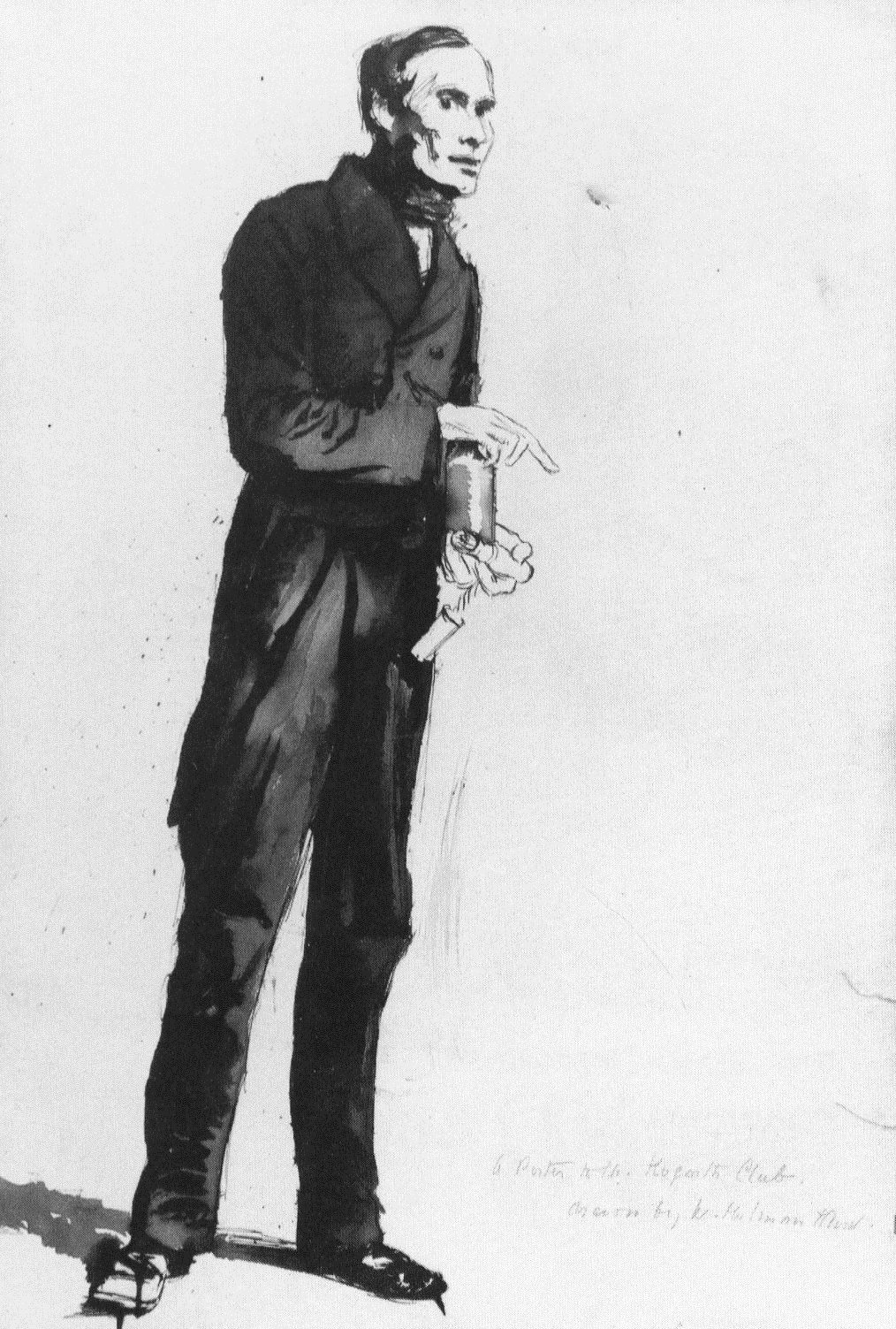 A porter at the Hogarth Club carrying an uncorked bottle of wine, by Holman Hunt